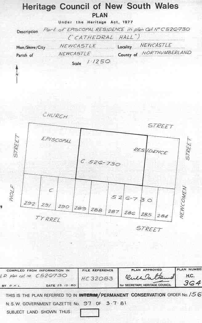 Horbury Hunt Hall: PCO Plan Number 156